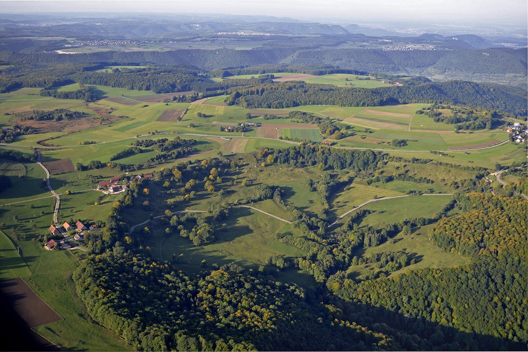 Aerial of the swabian volcano, “Randecker Maar”. The visible rest of a crater with ca. 1200m is the largest of all extinct Miocene volcanoes of the “Urach-Kirchheimer Vulkangebiet” (Swabian Volcanoes). The crater is a result of phreatomagmatic eruptions. After all available water was evaporated and volcanic activity attenuated, the crater slowly filled with water to become a maar. However, by continual erosion the Swabian Alb’s cuesta got closer and closer to the volcanoes crater; the crater was finally cut, all water ran out. The maar’s muddy floor caught and excellently preserved many examples of fauna and flora, which are now exhibited as valuable fossiles in the Nature Museum of Stuttgart. The cuesta of the Middle Swabian Alb, well visible in the back, is heavily eroded and dissected by tributaries of the Neckar. The lines of trees in the crater indicate rivulets, whose springs emerge from the impermeable volcanic rocks below. The swampy surface and the assembly of trees on the images’ left is the rest of the only raised bog of the Swabian Alb. This wetland, strictly protected as an important habitat, developed in late Pleistocene on impermeable rock of another volcano.